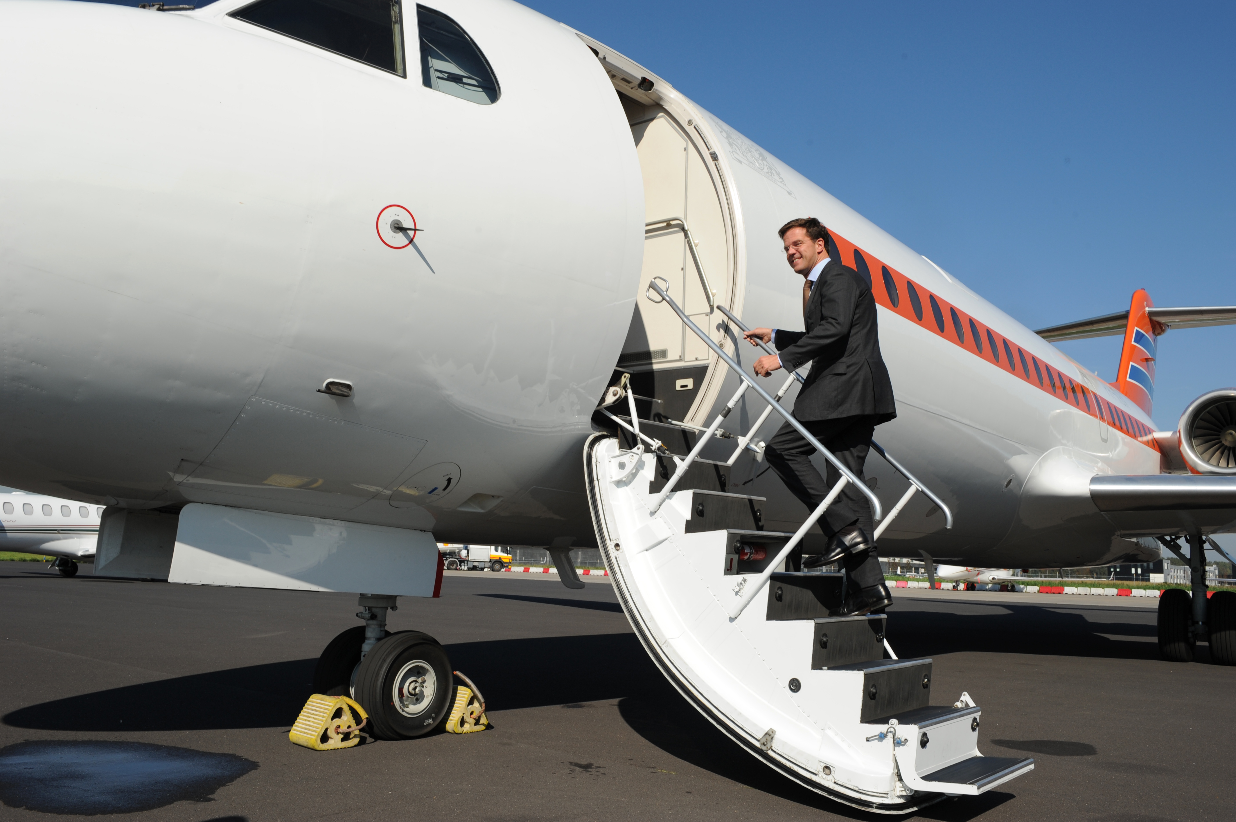 Prime Minister of the Netherlands Mark Rutte enters the government airplane PH-KBX